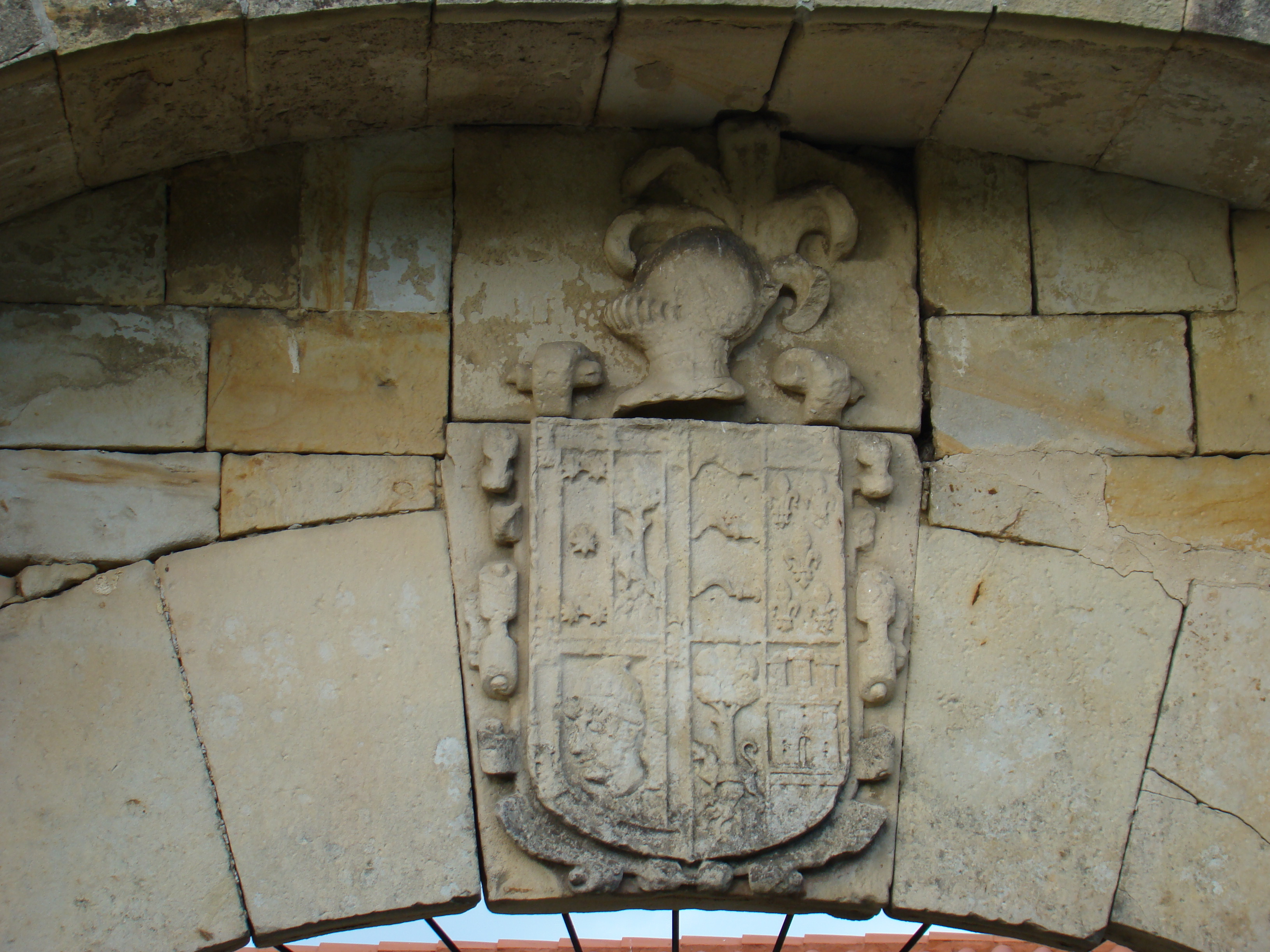 Coat of arms at the large entrance of the house belonging to the family Valle-Rozadilla in the suburb of "El Cristo" (The Christ) in Bárcena de Cicero (Cantabria, Spain).